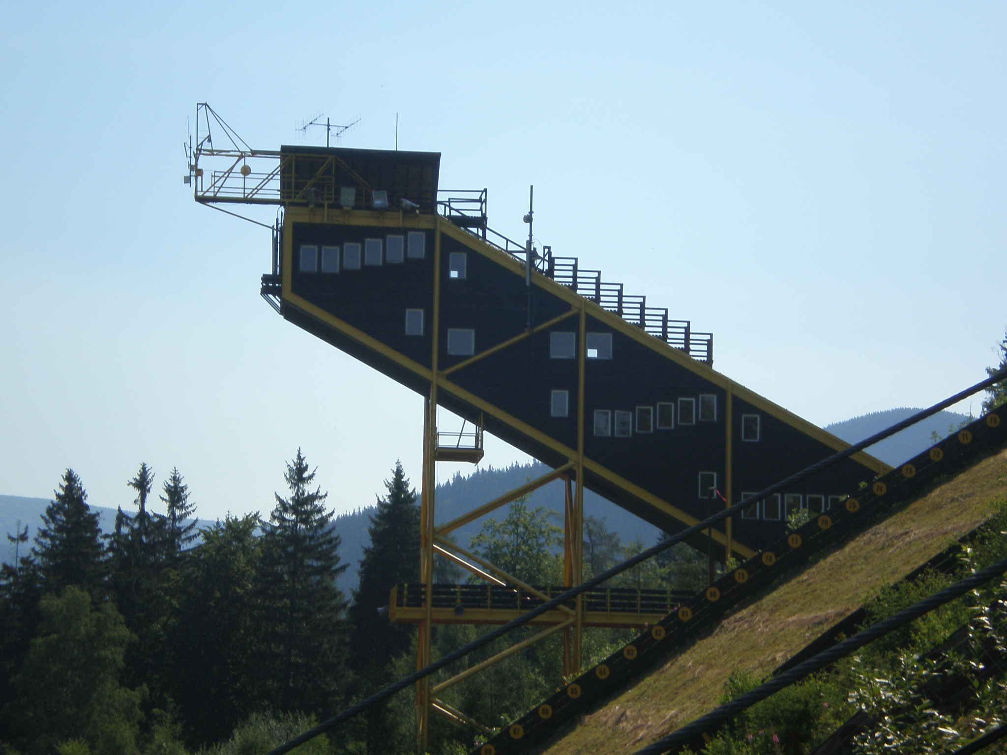 Harrachov